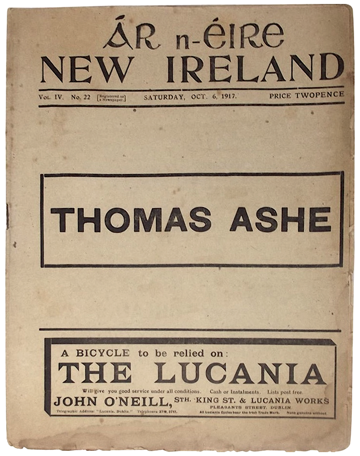 Front page of ÁR n-ÉiRE - New Ireland issue dated 6 October 1917 with the obituary of Thomas Ashe who died on hunger strike